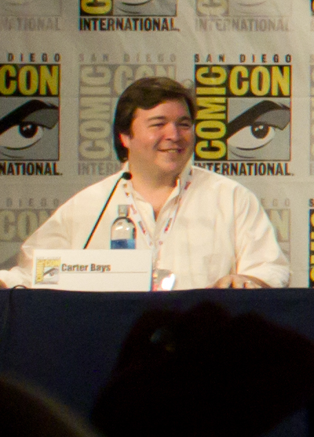 How I Met Your Mother